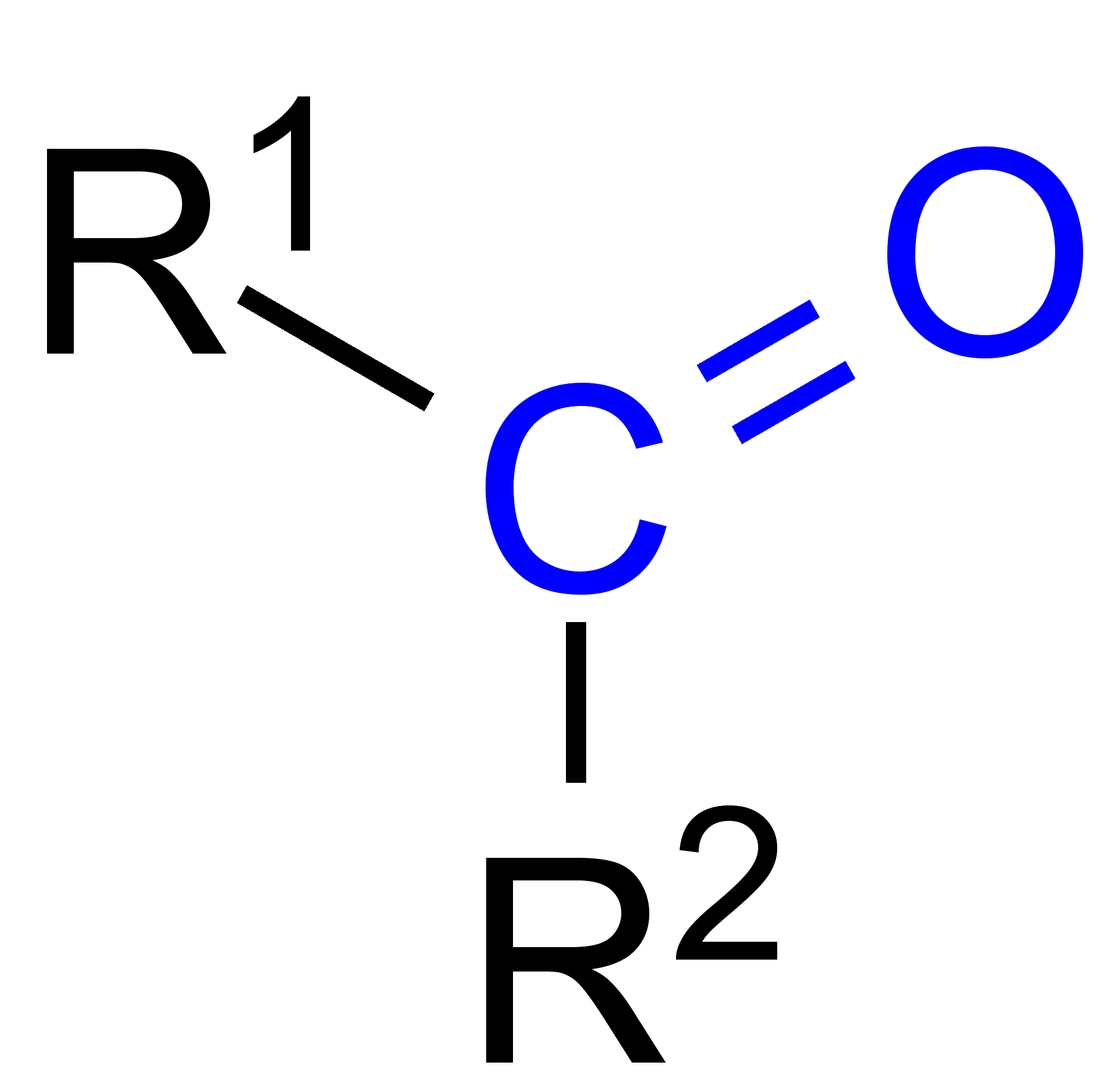 Ketone_Structural_Formulae